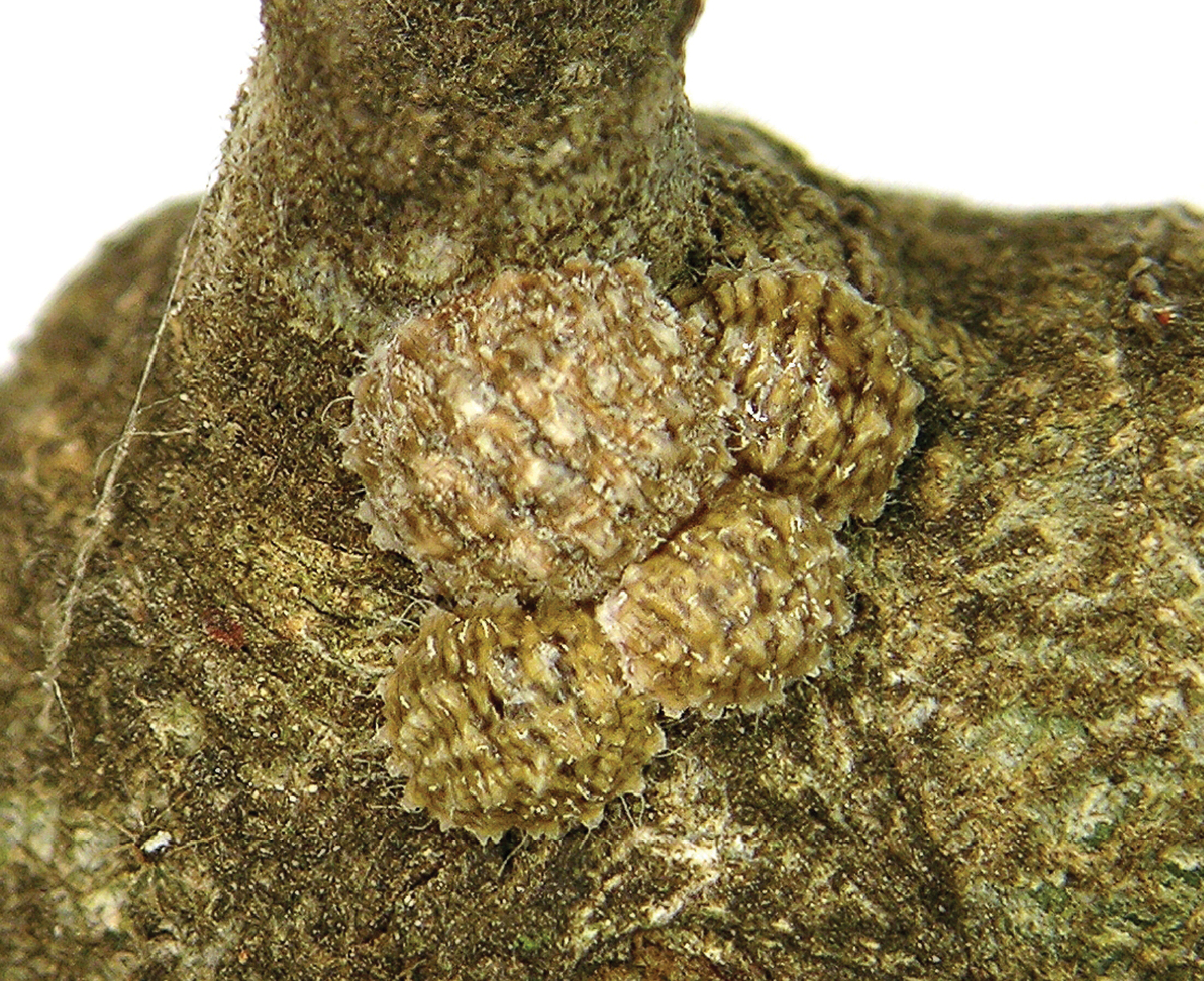 Kermes echinatus Balachowsky young adult females, general appearance.